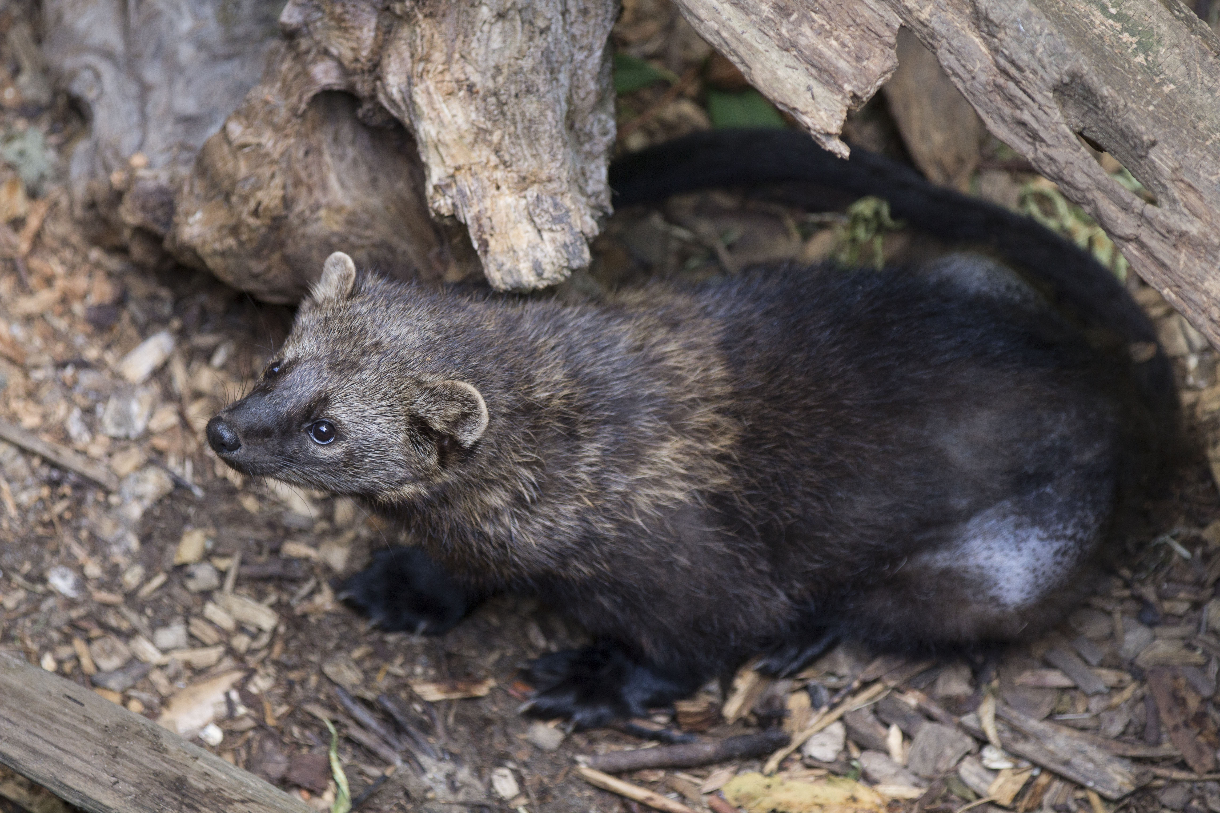 NPS photo by Emily Brouwer